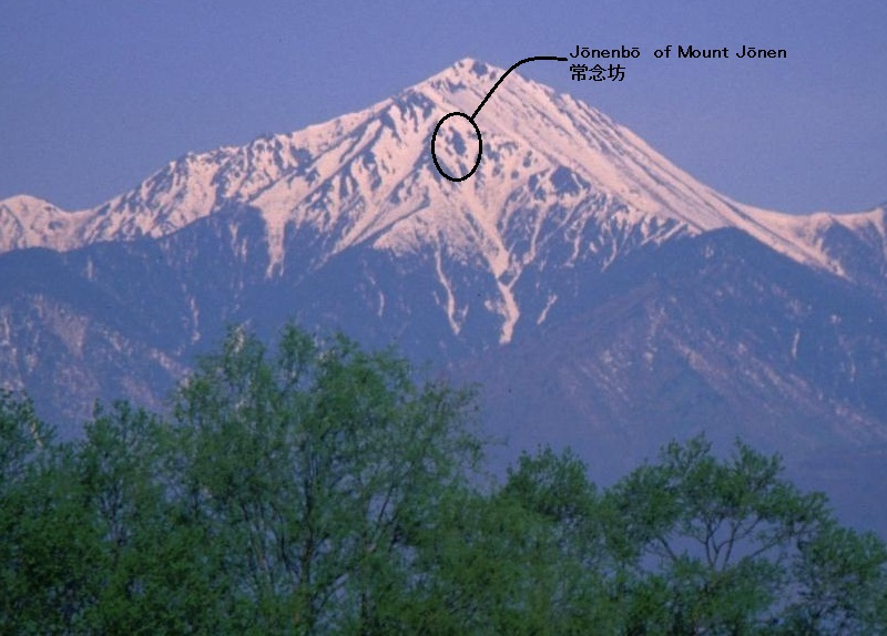 Mount Jōnen seen from Azusa River